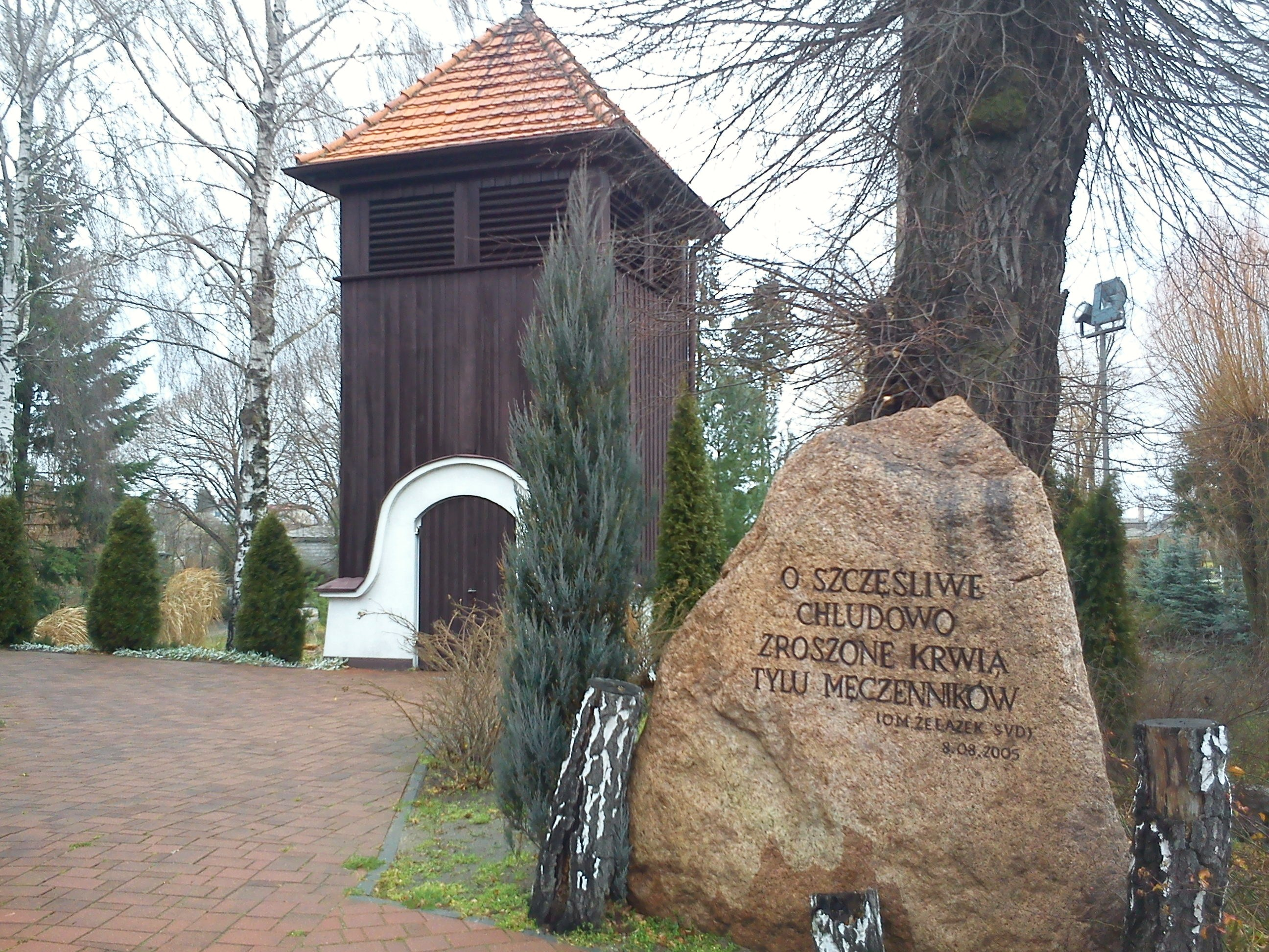 Bell tower in Chludowo.